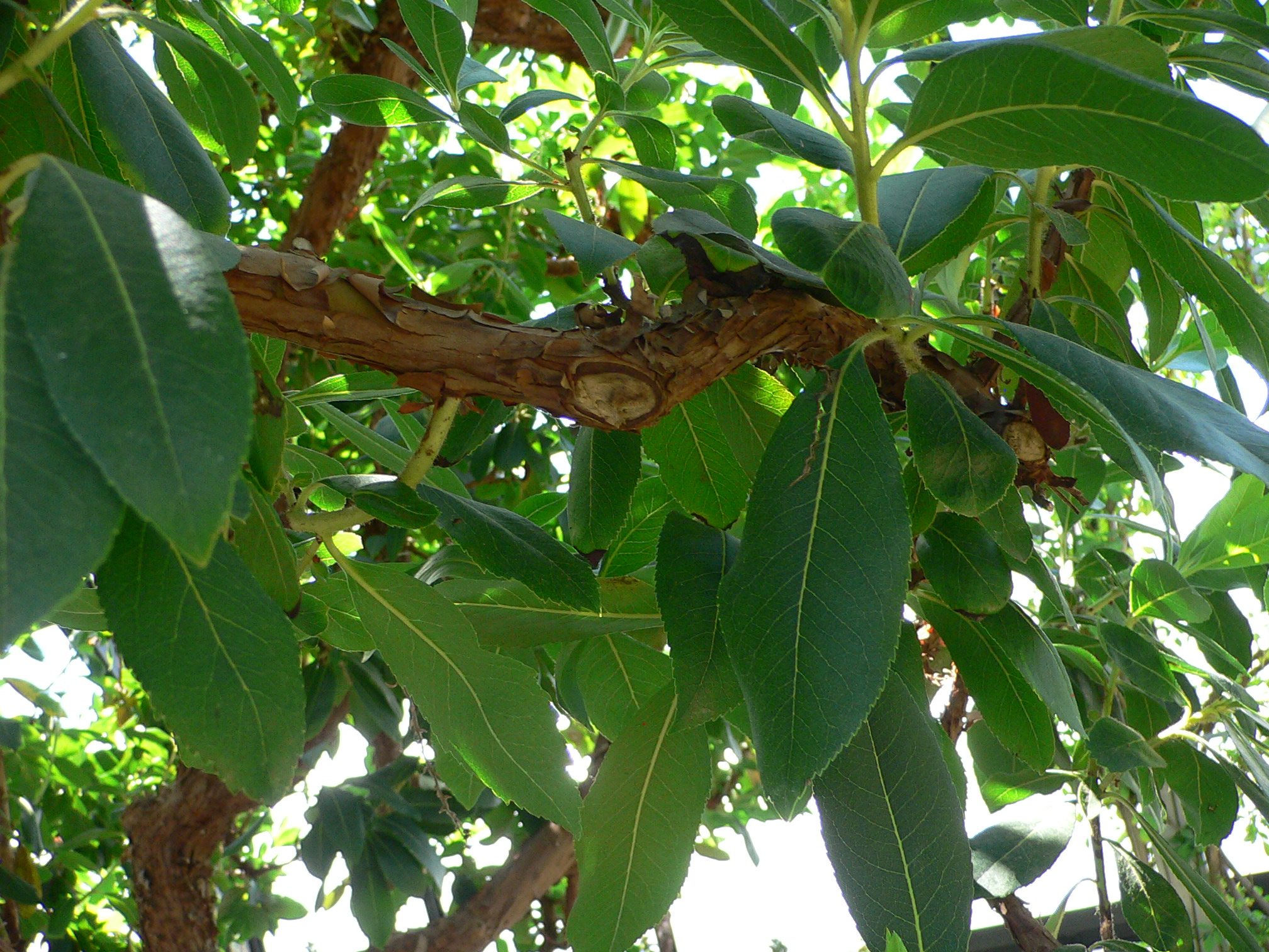 Arbutus × andrachnoides 'Marina'. Pictures taken by myself at Longwood Gardens